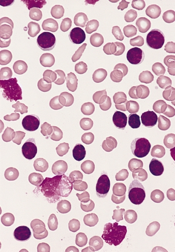 BONE MARROW: B-CELL CHRONIC LYMPHOCYTIC LEUKEMIA Blood smear from an adult male with a marked lymphocytosis. The predominant lymphocytes have very sparse pale cytoplasm, round to slightly oval nuclei, and no evident nucleoli. Three damaged cells are present. This morphology is characteristic of the majority of cases of B CLL. (Wright-Giemsa stain)